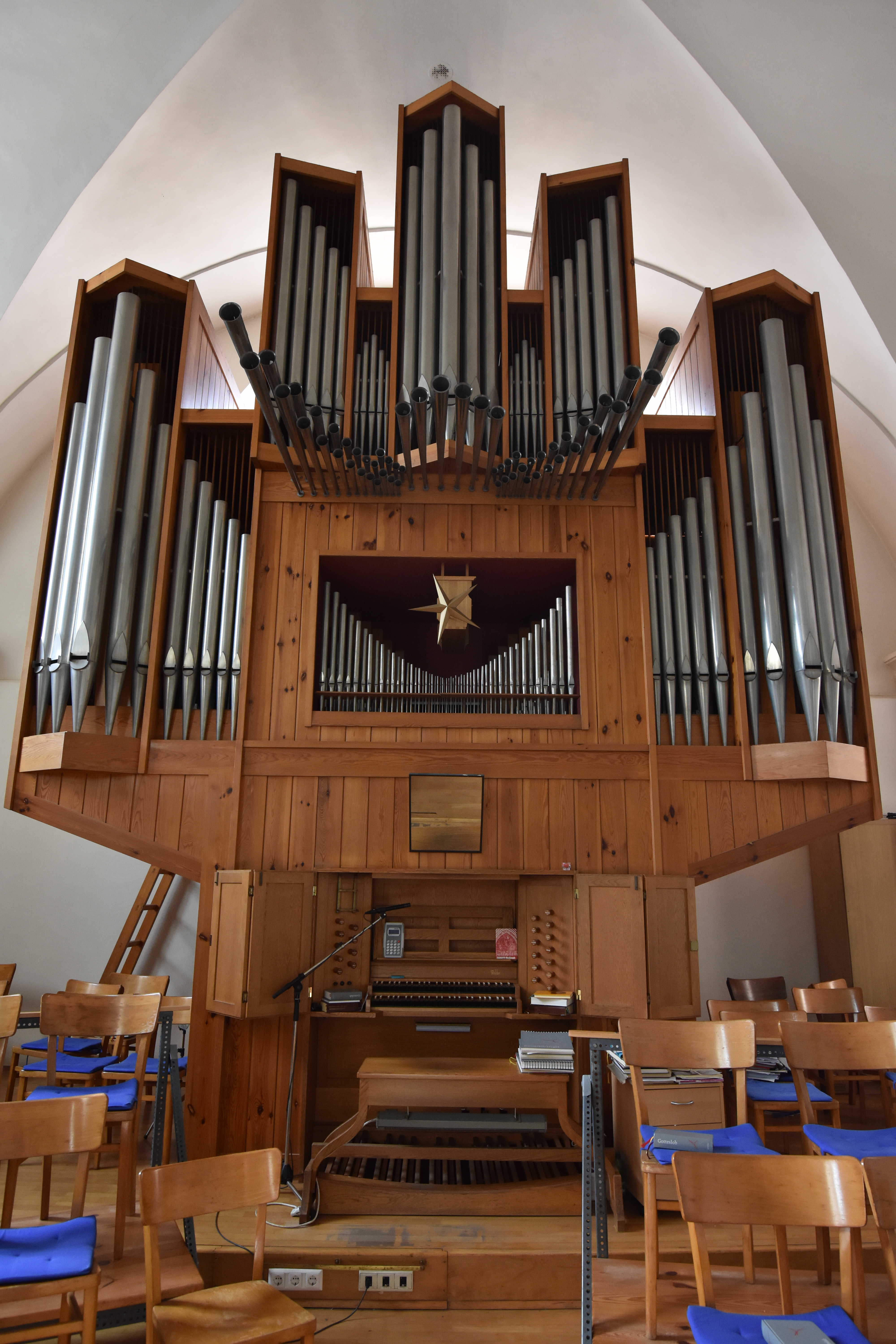 Franciscan monastery and church (Güssing) - Interior